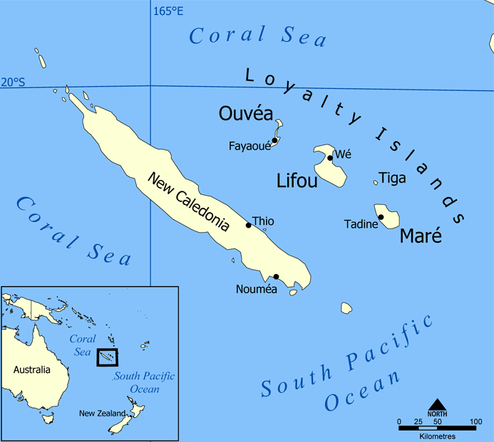 A map showing the location of the Loyalty Islands in the South Pacific Ocean. The islands include Lifou, Mare, Ouvea and Tiga, and nearby New Caledonia. Created by NormanEinstein, May 25, 2005.